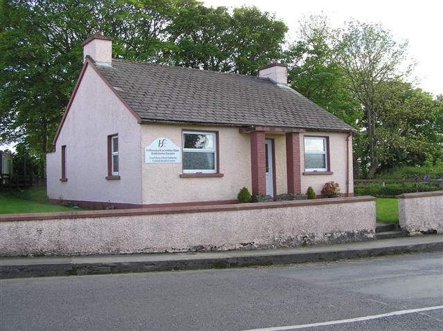 Culdaff Health Centre It is located on the Malin Road